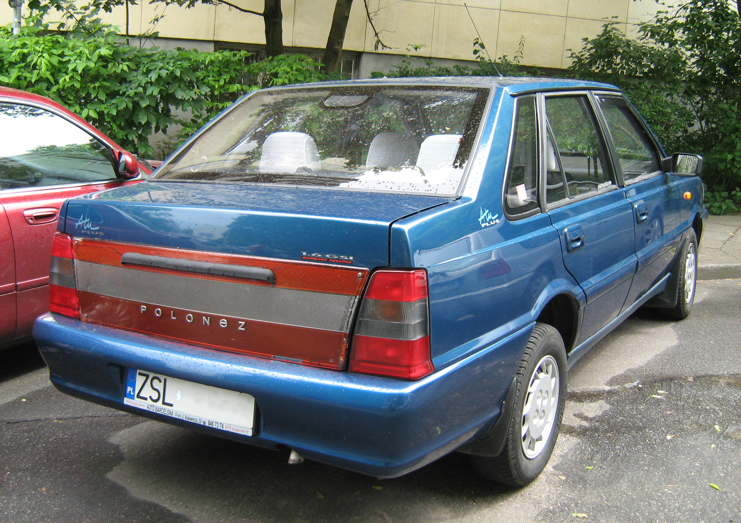 Daewoo-FSO Polonez Atu Plus 1.6 GSI multipoint injection four-door sedan. View of rear. Finished in blue.